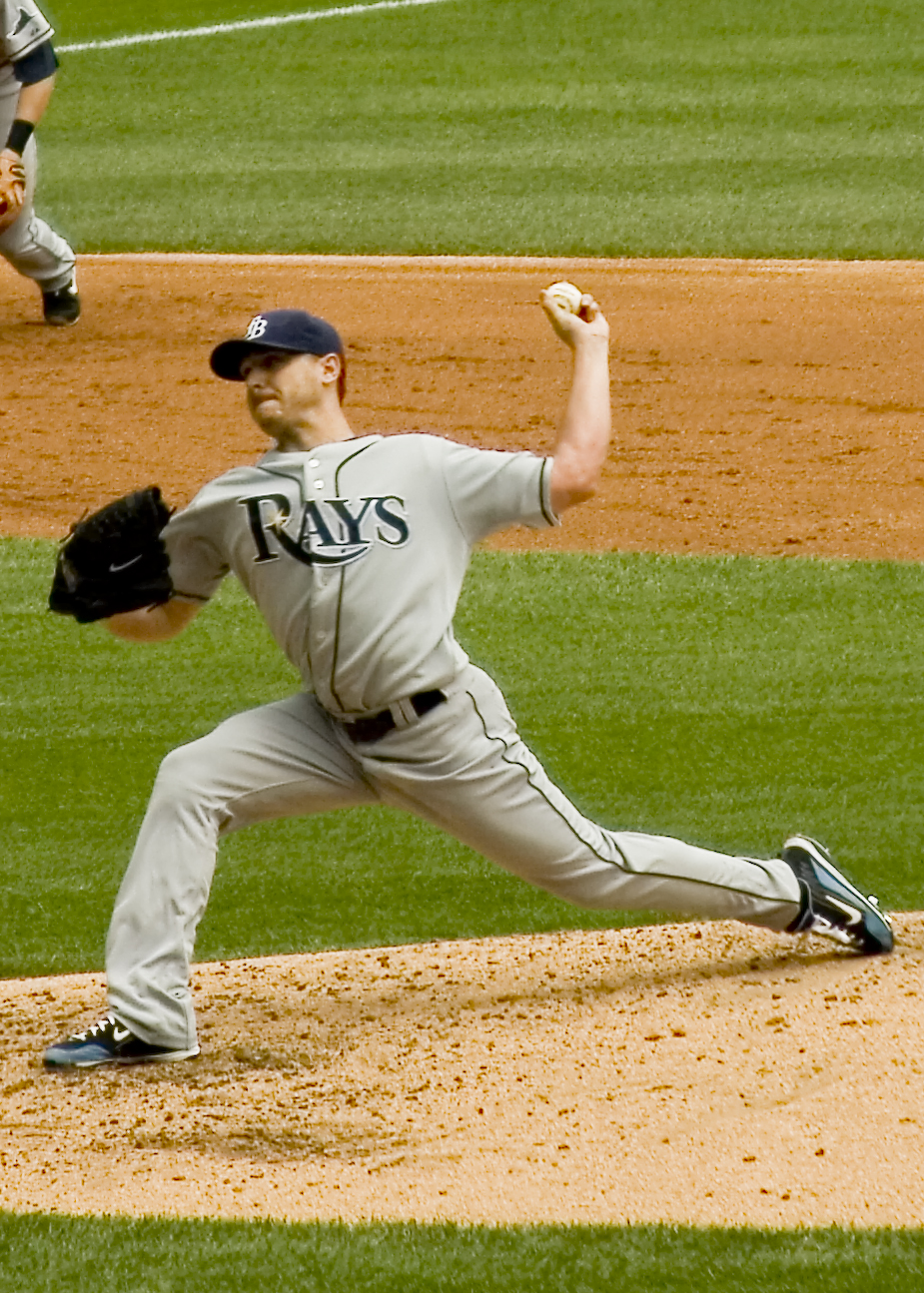 Scott Kazmir delivers a pitch for the 2009 Tampa Bay Rays